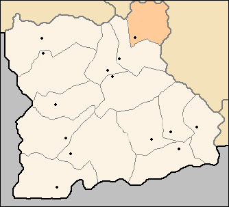 Map, Yakoruda Municipality Blagoevgrad Oblast, Bulgaria